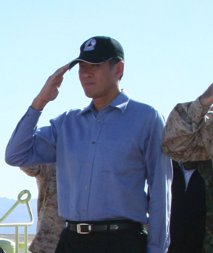 Dr. Ng Eng Hen (Mandarin: 黄永宏, Pinyin: Huáng Yǒnghóng; born 10 December 1958), Member of Parliament for the Bishan–Toa Payoh Group Representation Constituency, was the Minister for Education and Second Minister for Defence of Singapore as of 1 April 2009. He was also a member of the Central Executive Committee of the People's Action Party.